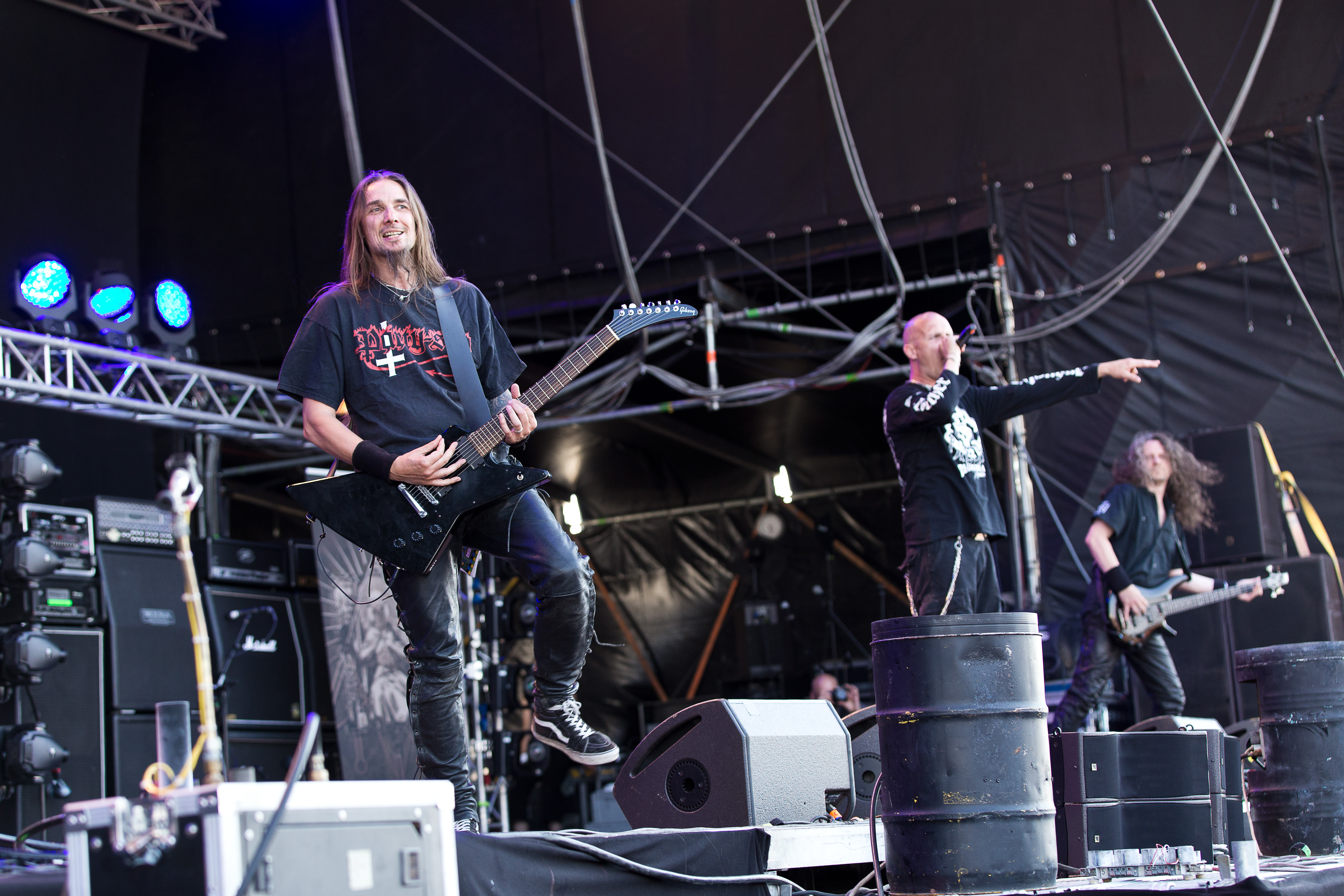 The German death metal band Postmortem at the Party.San Open Air 2015 in Obermehler-Schlotheim/Germany.